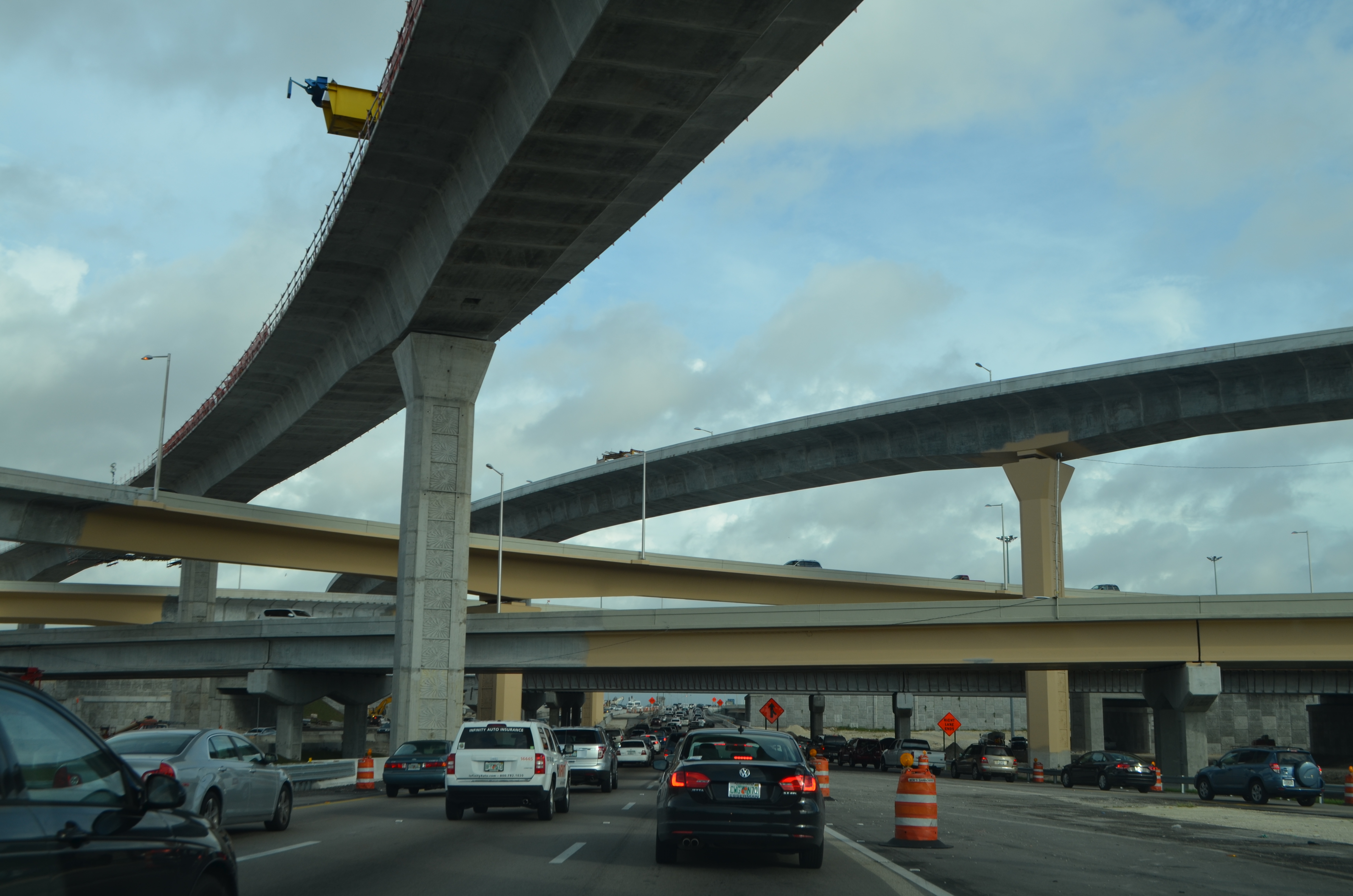 Construction on the Dolphin-Palmetto Interchange from Florida State Road 826 northbound. November 2014